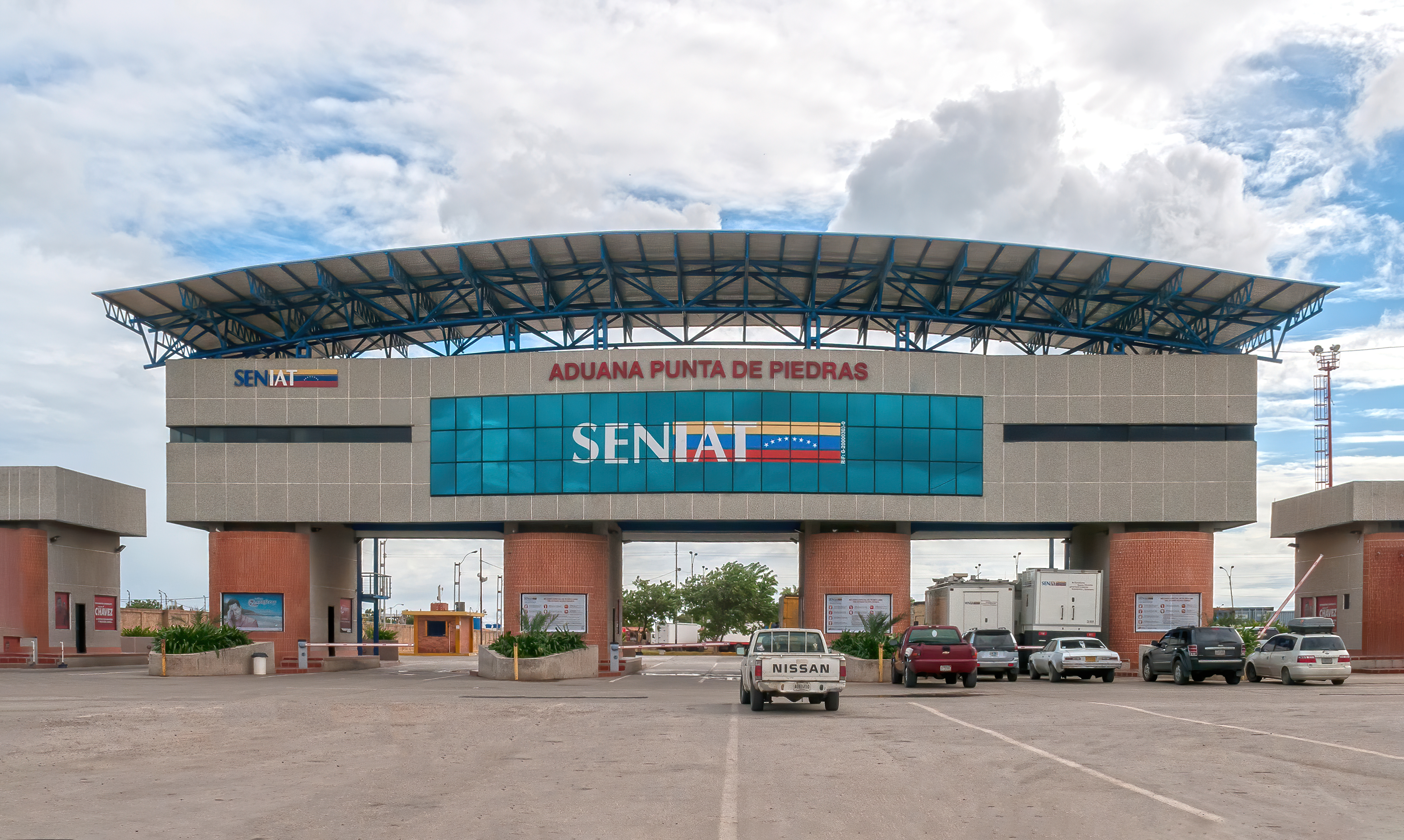 SENIAT in Punta de Piedras, Isla de Margarita